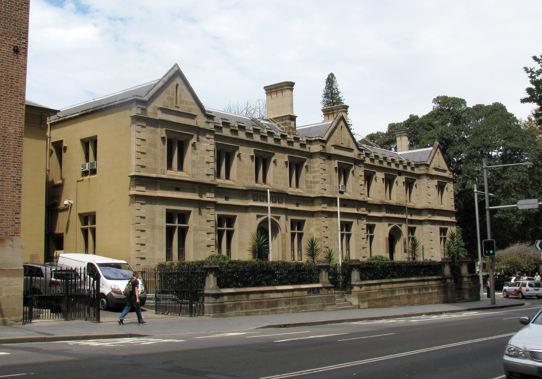 Court Five (formerly Old Registry), Supreme Court of New Wales, Sydney